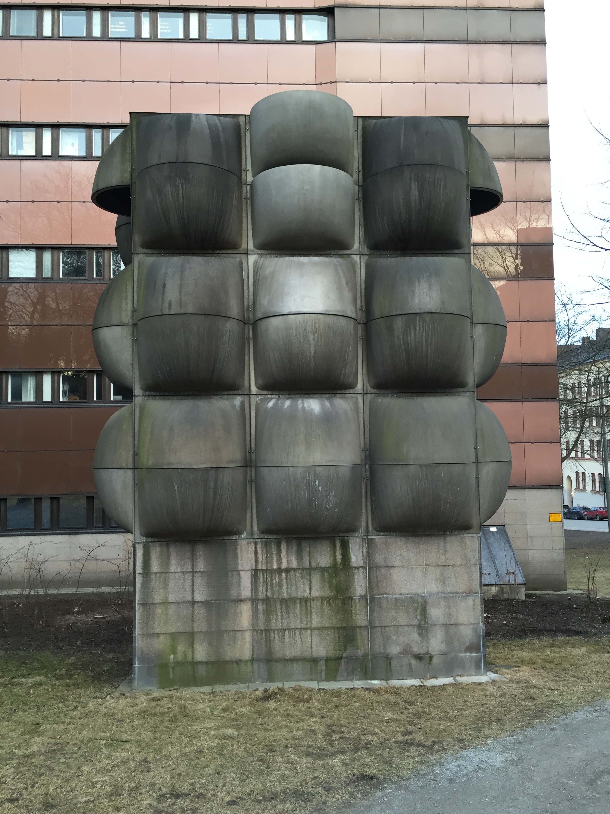 A vent shaft at Kronobergshäktet by architect Lennart Kolte, Stockholm, 2016